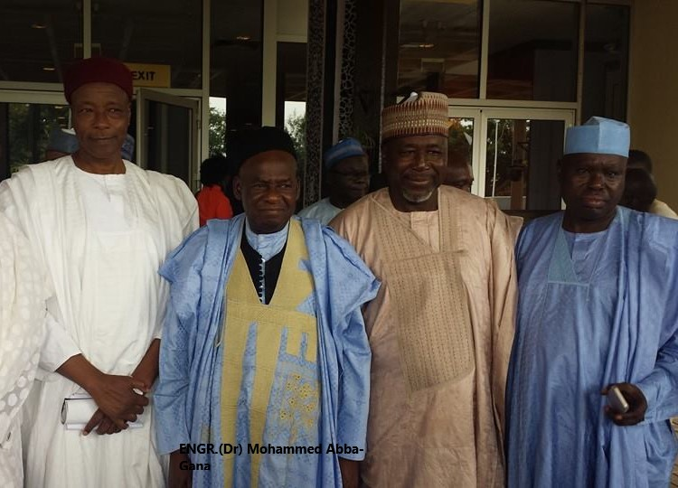 Engr Mohammed AbbaGana, Alhaji Abaya Lawan, Comrade Modeu Shettima, Alhaji Bulama Korede, Mustapha Abbator